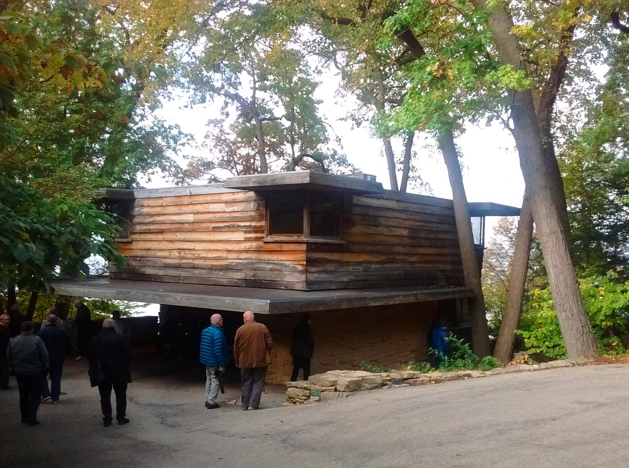 John C. Pew House, 1938 design by Frank Lloyd Wright in Shorewood Hills, Wisconsin. Taken from the top of the driveway looking at the southwest corner of the house. The two story structure is constructed of cypress wood and limestone.